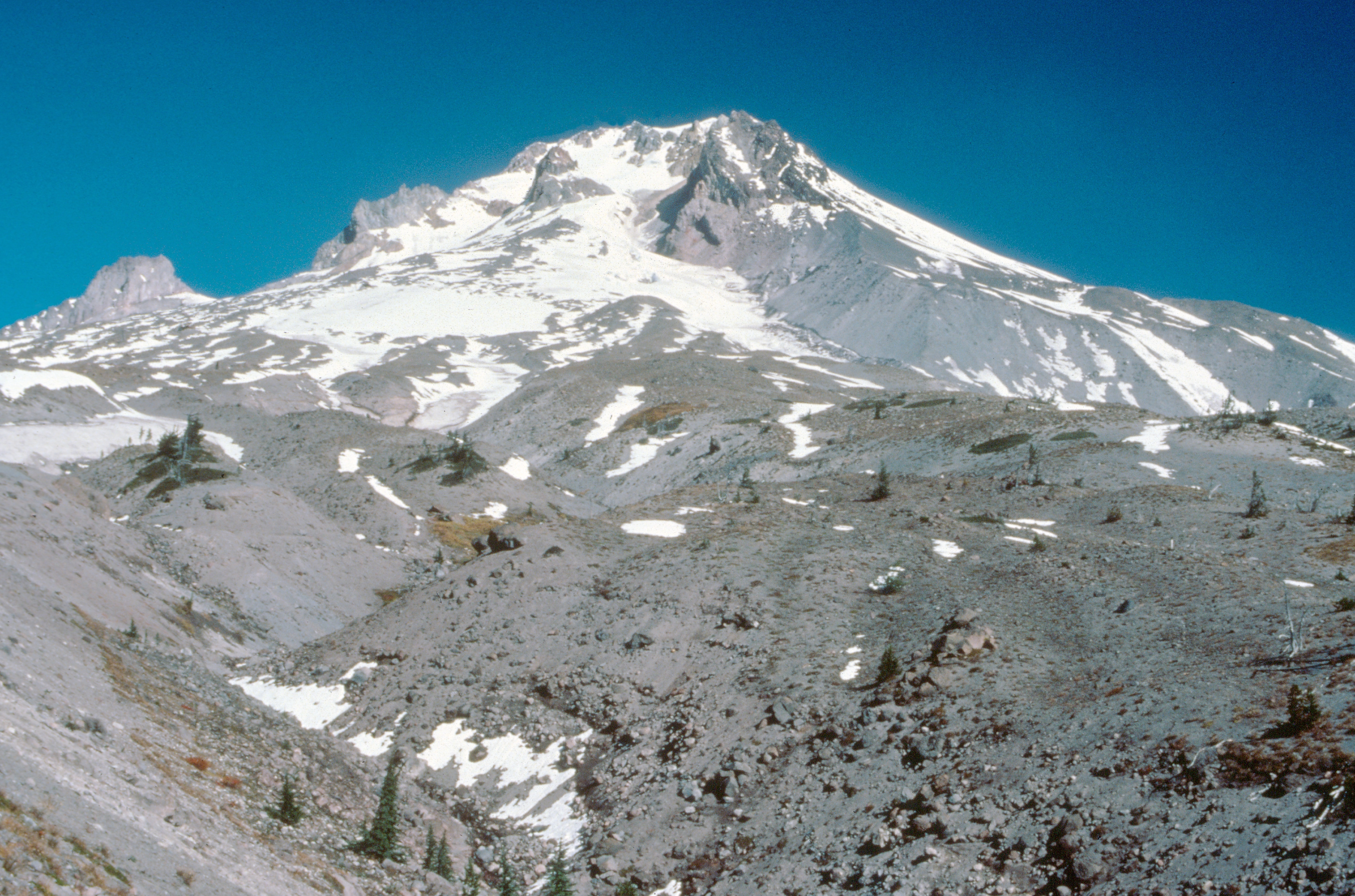 Mount Hood, Oregon, view north from Timberline